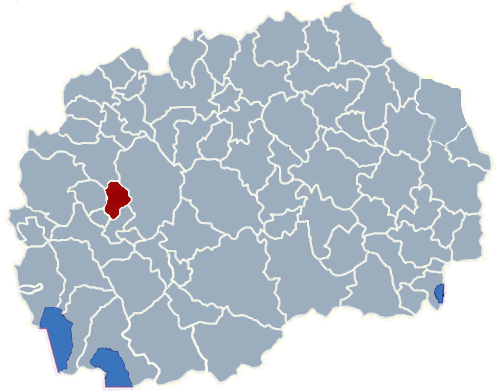 Map of Oslomej municipality.